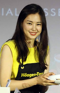 Actress Lee Ha-nui